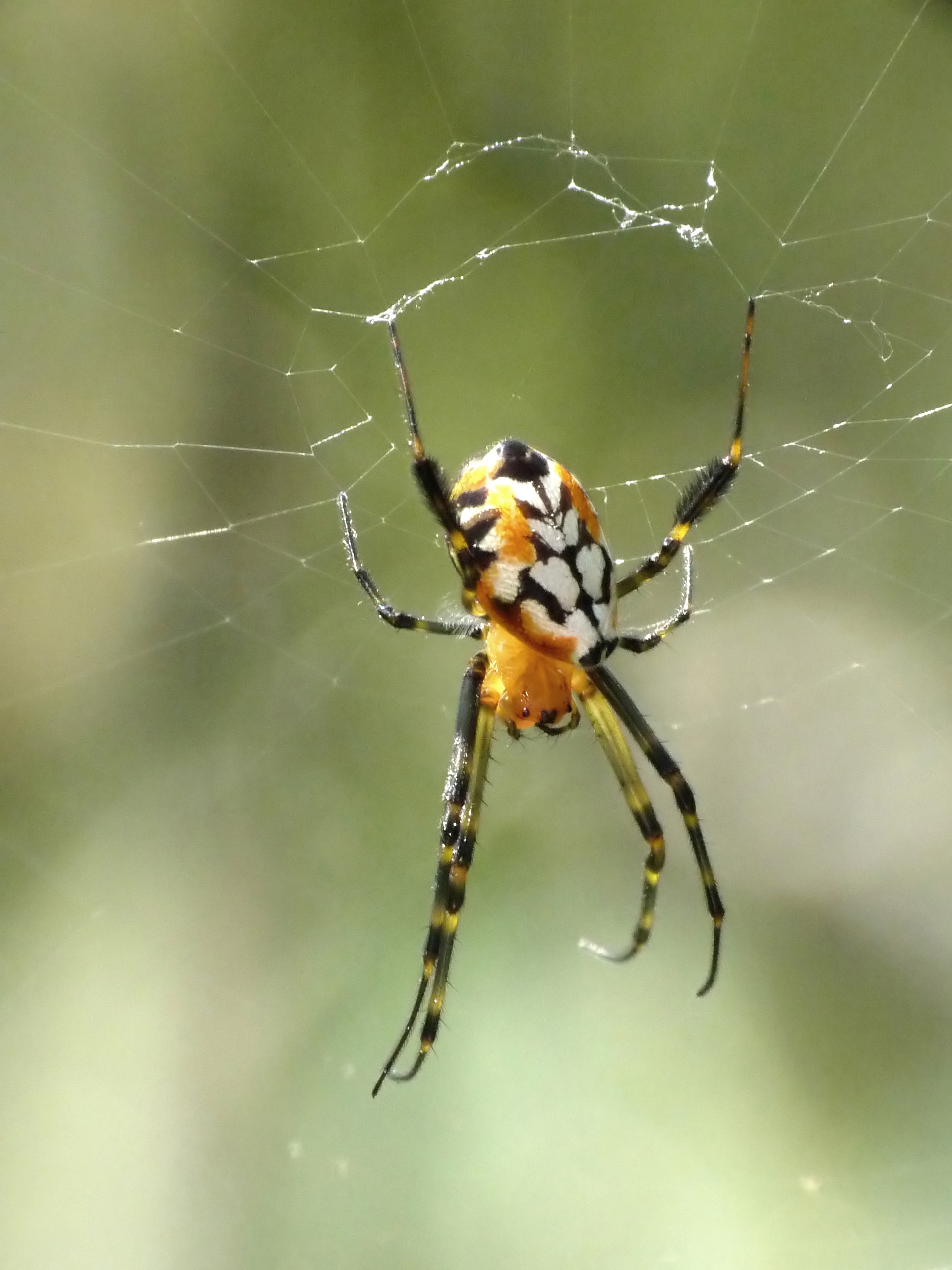 Opadometa fastigata, Pear-Shaped Leucauge, is a Long-jawed orb weaver (Tetragnathidae family), found in India to Philippines, Sulawesi. They are elongated spiders with long legs and chelicerae. They are orb web weavers, weaving small orb webs with an open hub and few, wide-set radii and spirals. The webs have no signal line and no retreat. Members of the species Leucauge silvery or golden spots on the abdomen. The web is a large horizontally-placed orb structure with a diameter of more than a metre. The entire web is often suspended by several long strands of silk attached to branches and leaves nearby. This species is separated from other Leucauge spiders by its pear-shaped abdomen and its unique fourth leg. In addition to the two rows of curved hairs (characteristic of Leucauge), this leg also has a thick brush of spines which are not present in most other species of Leucauge.